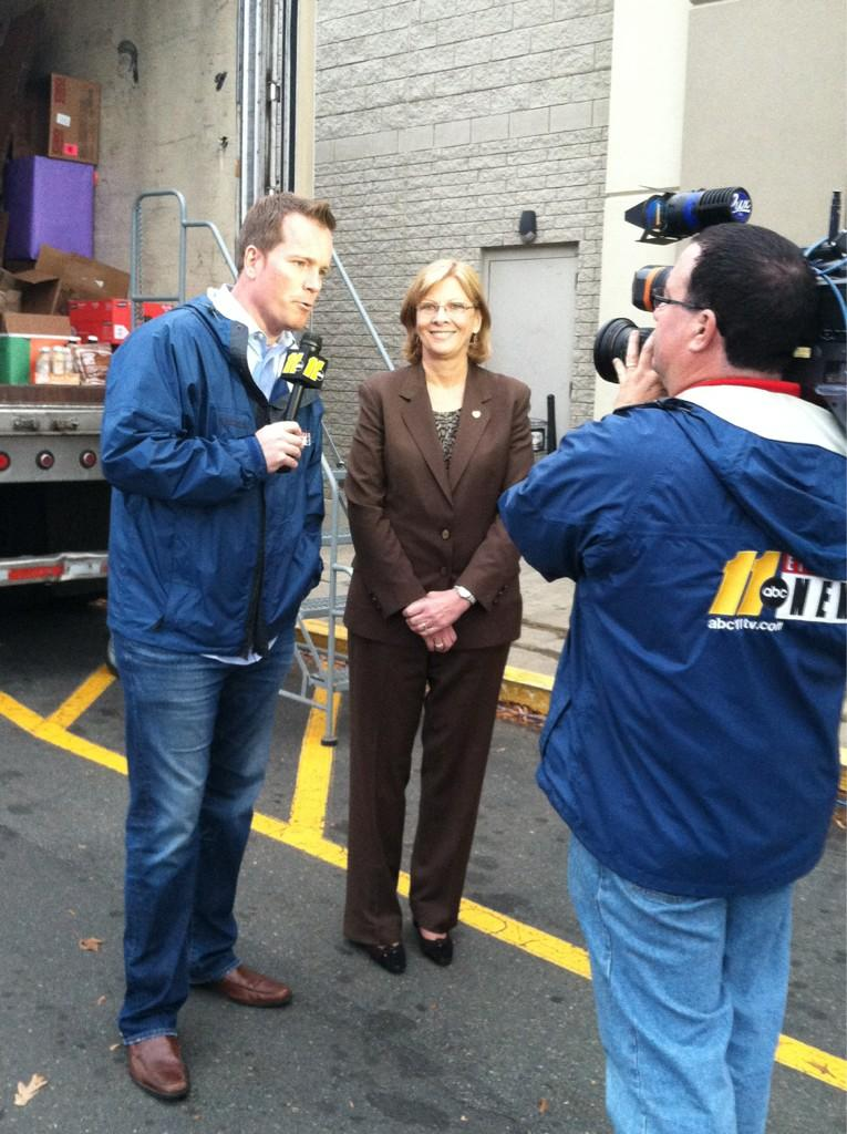 Raleigh Mayor Nancy McFarlane being interviewed by ABC11 journalist Mark Armstrong